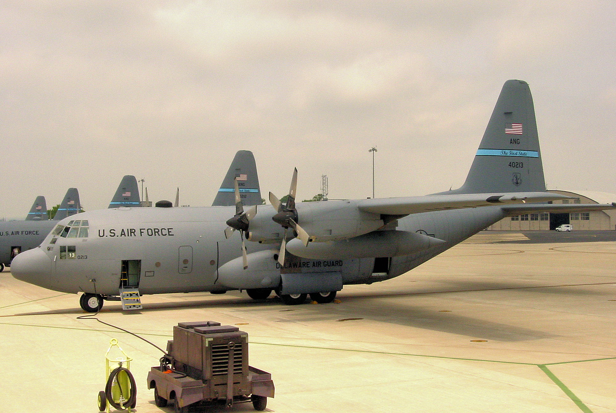 Aircraft # 213, Delaware Air National Guard, parked on the ramp at New Castle air base, Del., after passing the 10,000 flying hour milestone on June 5, 2008, becoming the first C-130 aircraft in the unit to pass this mark since the fleet arrived in the mid-1980s.